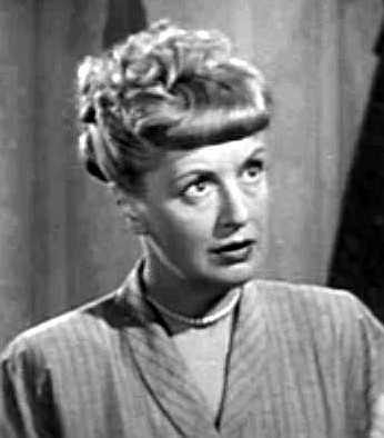 Lee Patrick in Inner Sanctum - cropped screenshot